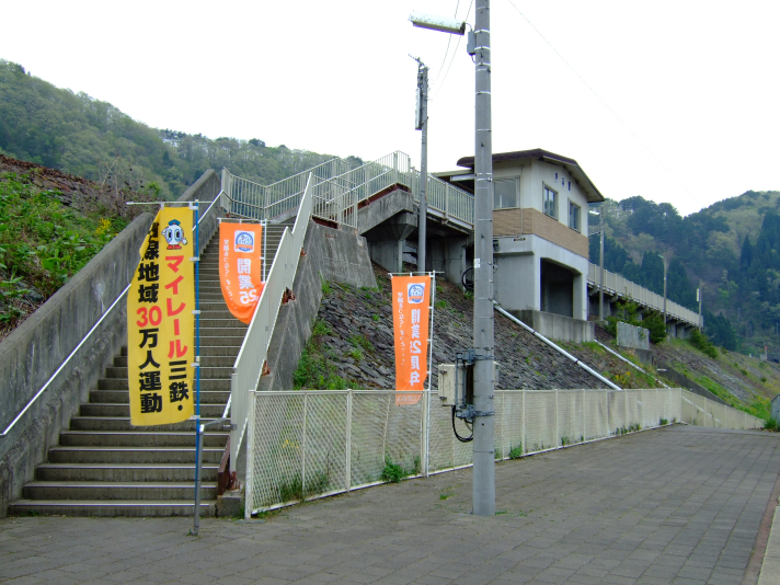 Settai Station on Sanriku Railway Kita Riasu Line